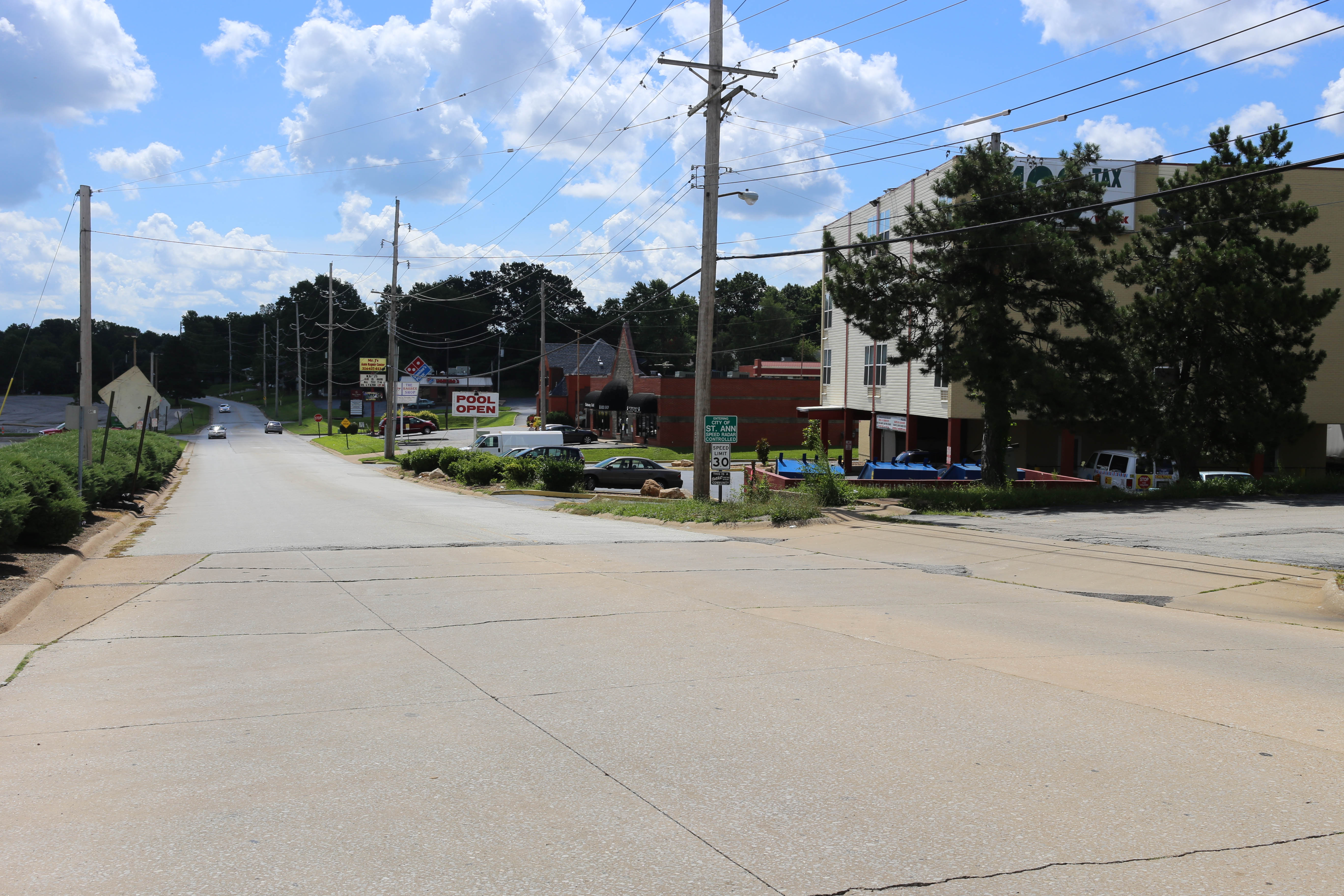 Across from the Mall